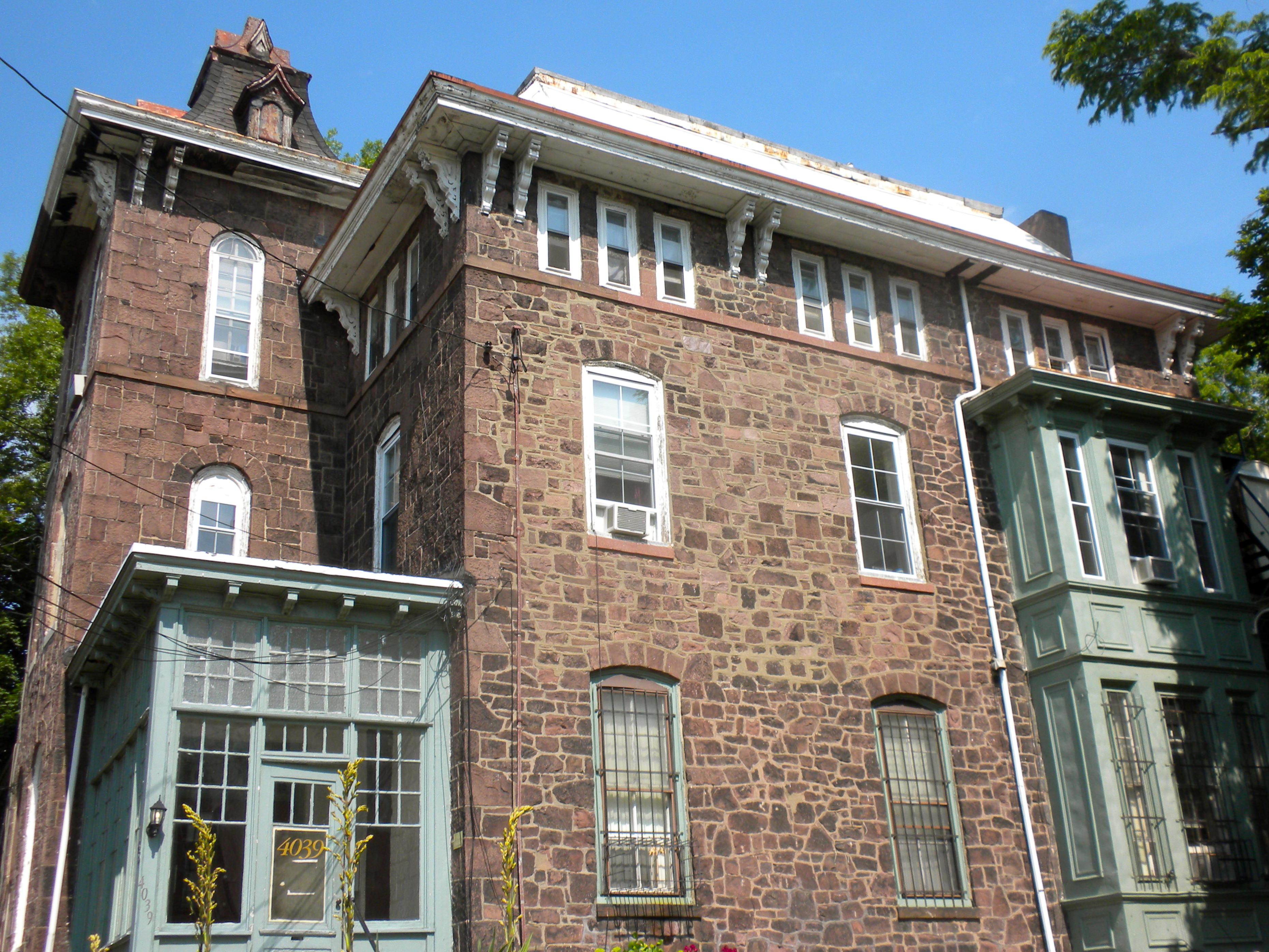 Hamilton Family Estate on the NRHP since June 22, 1979. At 4039–4041 Baltimore Avenue and 4000–4018 Pine Street (this is 4039 Baltimore) in Spruce Hill neighborhood of west Philadelphia.